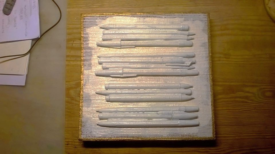 "Italian sonnet" by Witold Szwedkowski, example of haptic poetry